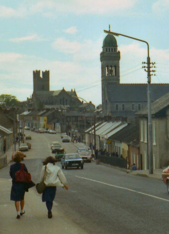 Seipeal Mhuire, Sraid Ath Longphoirt, Luimneach, 1982